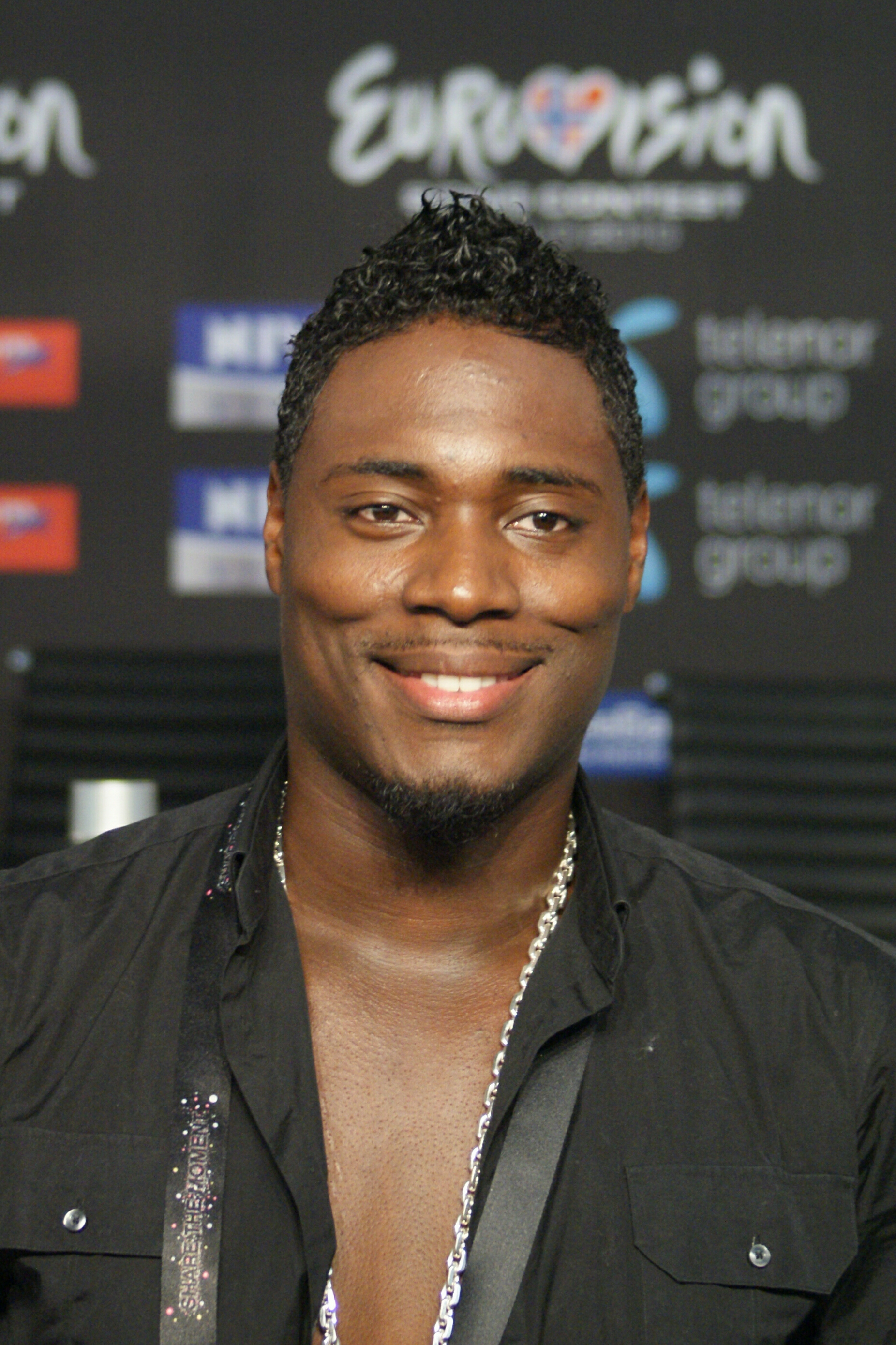 Jessy Matador